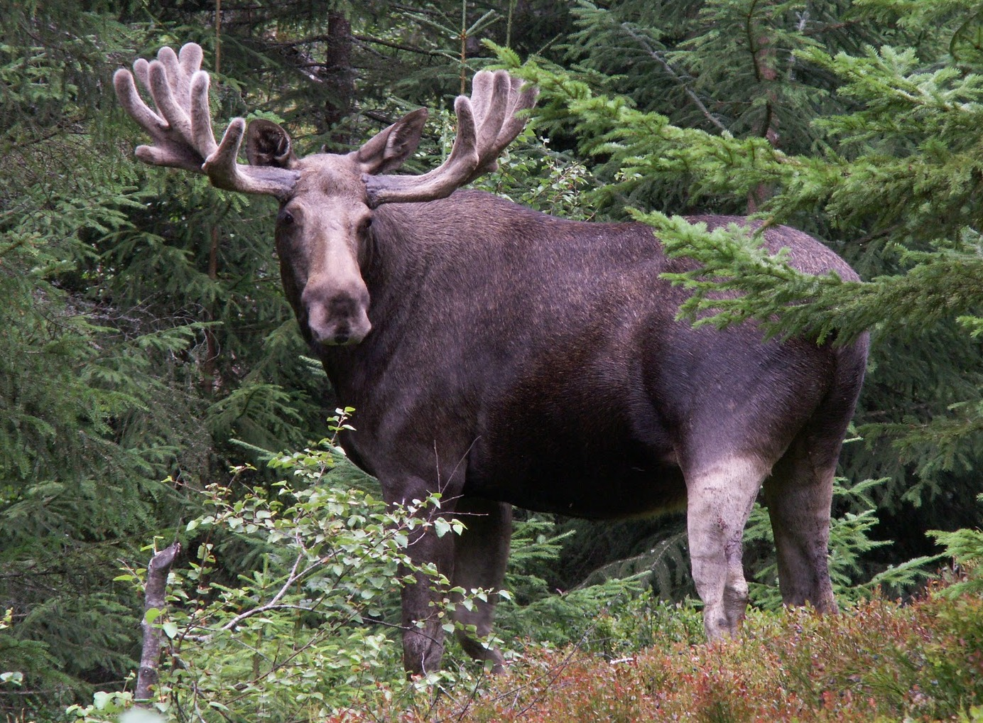 An elk in the forest of Telemark, Norway